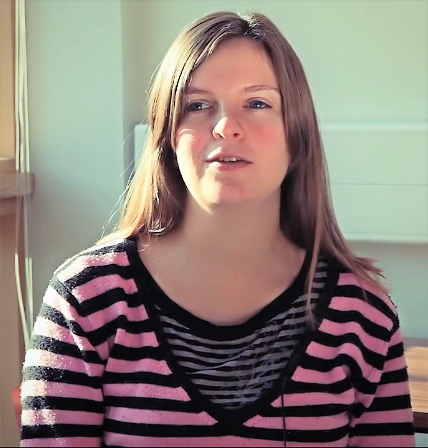 Suzi Gage from the University of Bristol talks to Decipher My Data about getting her work published. What makes peer review different to publishing a story in a newspaper?